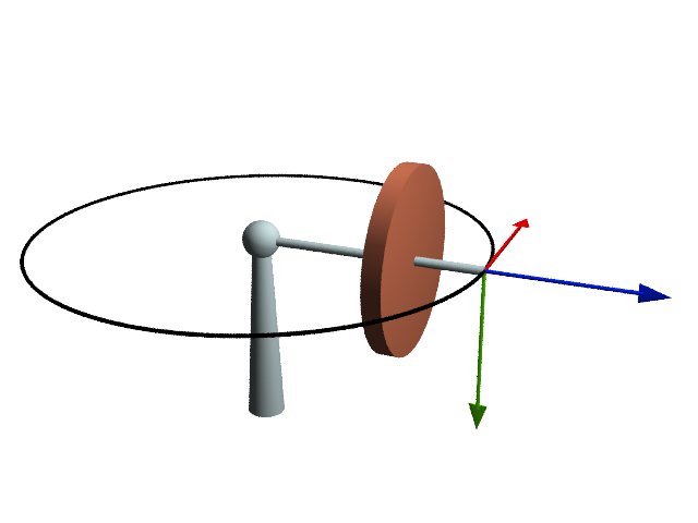 Basic illustration of a gyroscope with arrows showing the angular momentum of the flywheel, the weight vector, and the torque vector. Also the trajectory of the precession is shown. Created by myself.